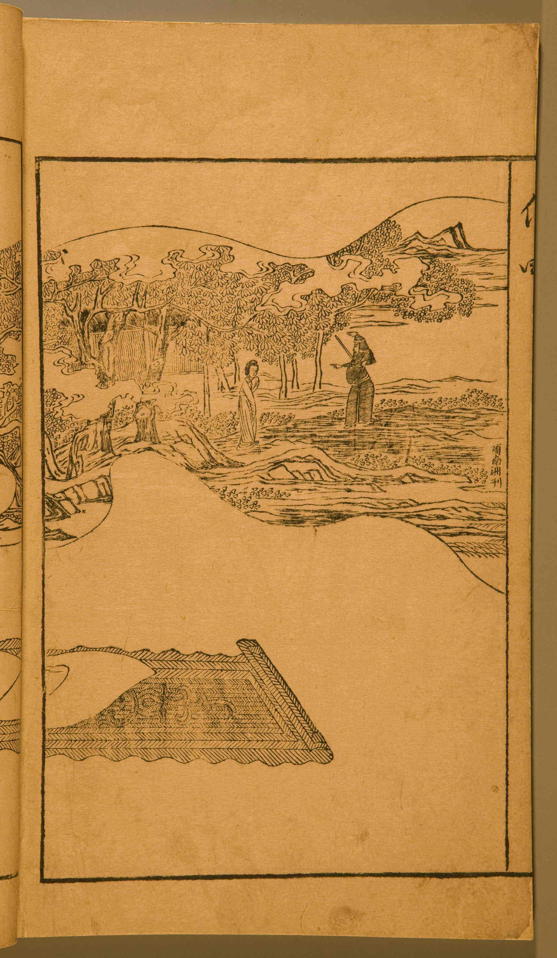 "The Yuan dynasty drama, Story of the Western Wing, by Wang Shifu, is the finest dramatic work of traditional China. It ranks with Tang Xianzu’s Peony Pavilion, Kong Shangren’s Peach Blossom Fan, and Hong Sheng’s Palace of Everlasting Life as one of the four great classical dramas of pre-modern China, and has had a far-reaching influence on the literature and theatrical history of China. The plot of the drama is a reworking of the short work, The Story of Yingying (also titled Encounter with an Immortal) by Yuan Zhen of the Tang dynasty. The famous line from the play, “I hope that all under heaven who know love will be able to unite as husband and wife,” subsequently became the ultimate wish for pure love. There have been many editions of Story of the Western Wing over the centuries. The Ming dynasty Secret Edition of the Northern Western Wing, Corrected by Mr. Zhang Shenzhi, published in the Chongzhen reign, is especially celebrated for its woodblock illustrations. The artist was the famous late-Ming painter Hong Shou. The compositions are superb and show extraordinary creativity, making this unique among the many illustrations of the tale. The illustration "Stealing a Look at the Letter" is very faithful to the plot and conveys the spirit of the situation perfectly; it is a masterpiece of ancient woodblock illustration."